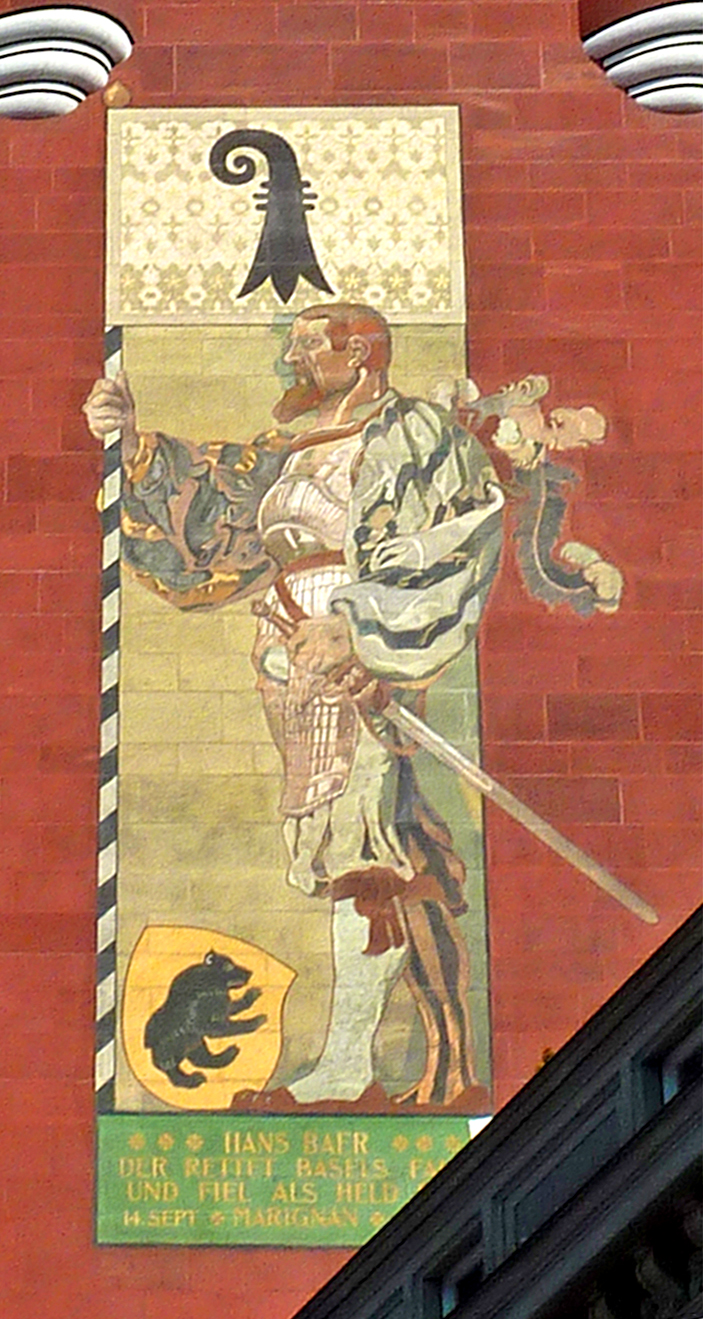 Hans Bär, who saved the banner of Basel and died a hero in the Battle of Marignano (1515), here in a mural on the tower of Basel City Hall painted by Wilhelm Balmer in 1901.